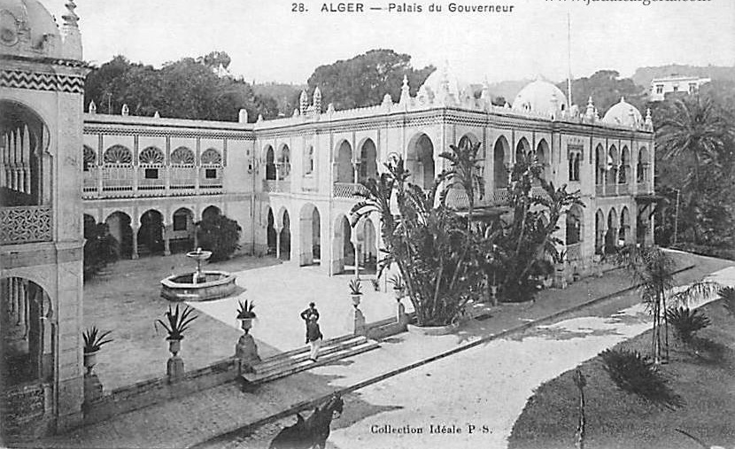 People's palace of Algeirs, Algeria